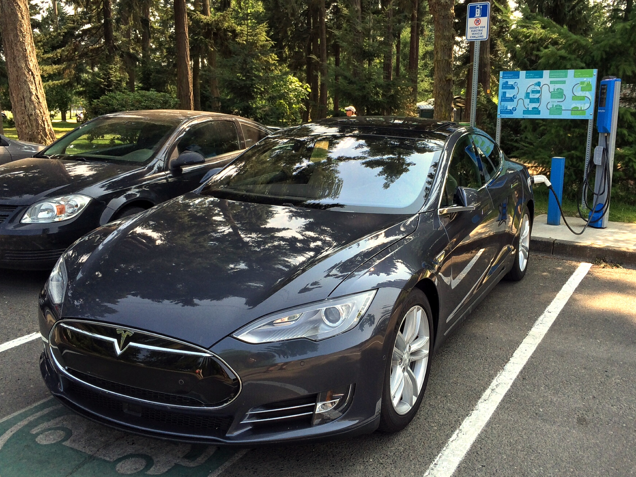 Tesla Model S electric car charging at Parksville beach, British Columbia, Canada